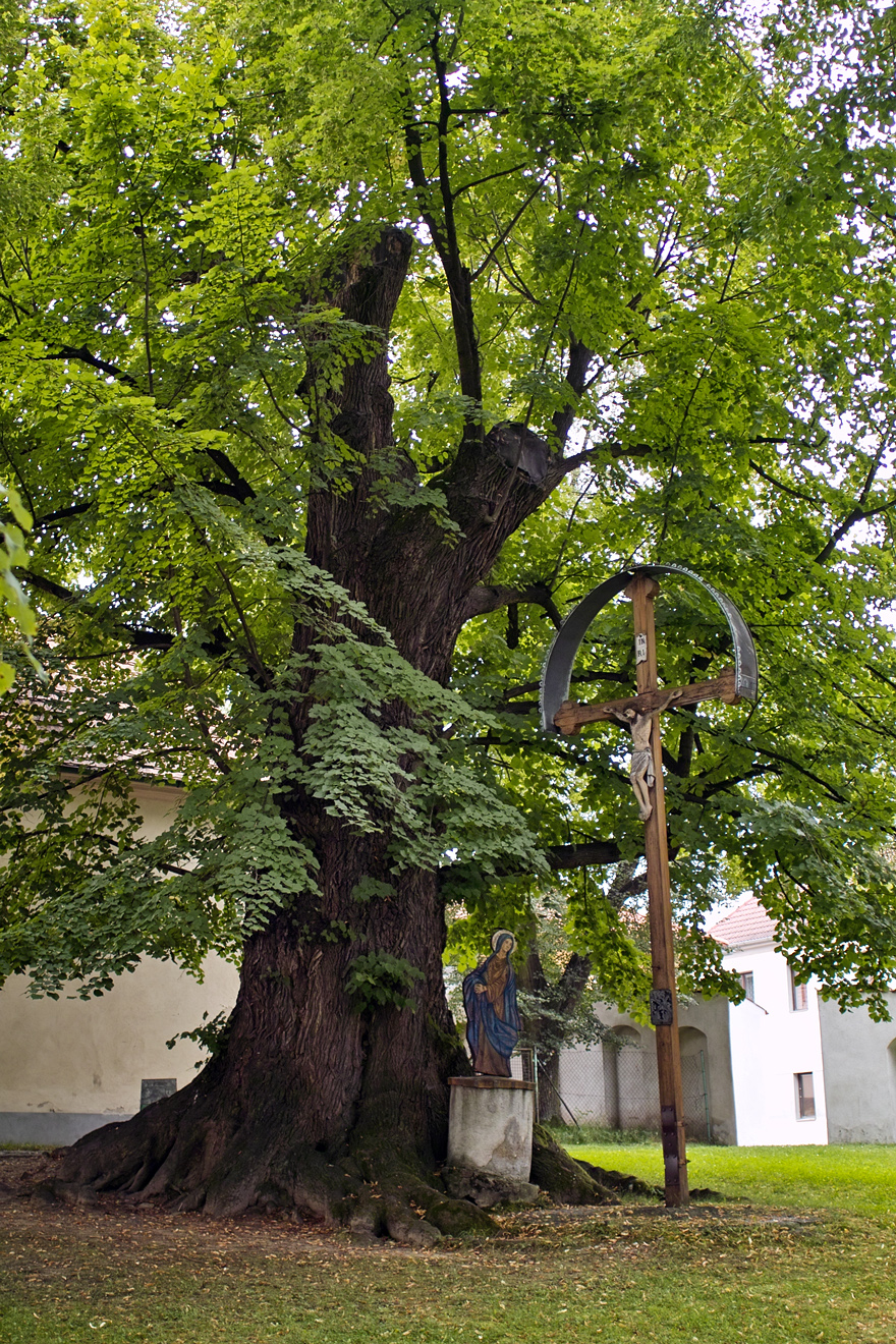 Jan Gurre's lime-tree in Rimov near Ceske Budejovice, memorable tree